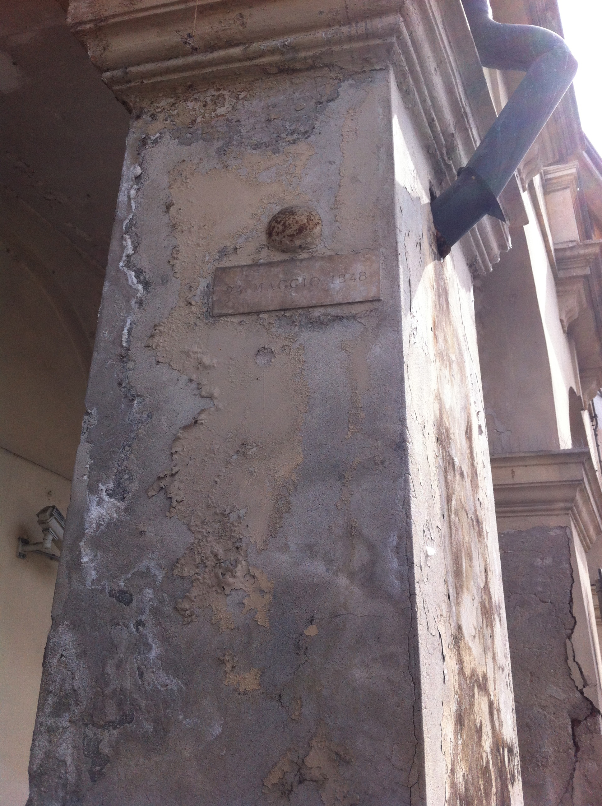 Cannonball fired in may 24, 1848, fixed in a pillar in Piazza Castello in Vicenza, Italy. (This is one of the 3 similar cannonballs in the hystorical centre of the city).